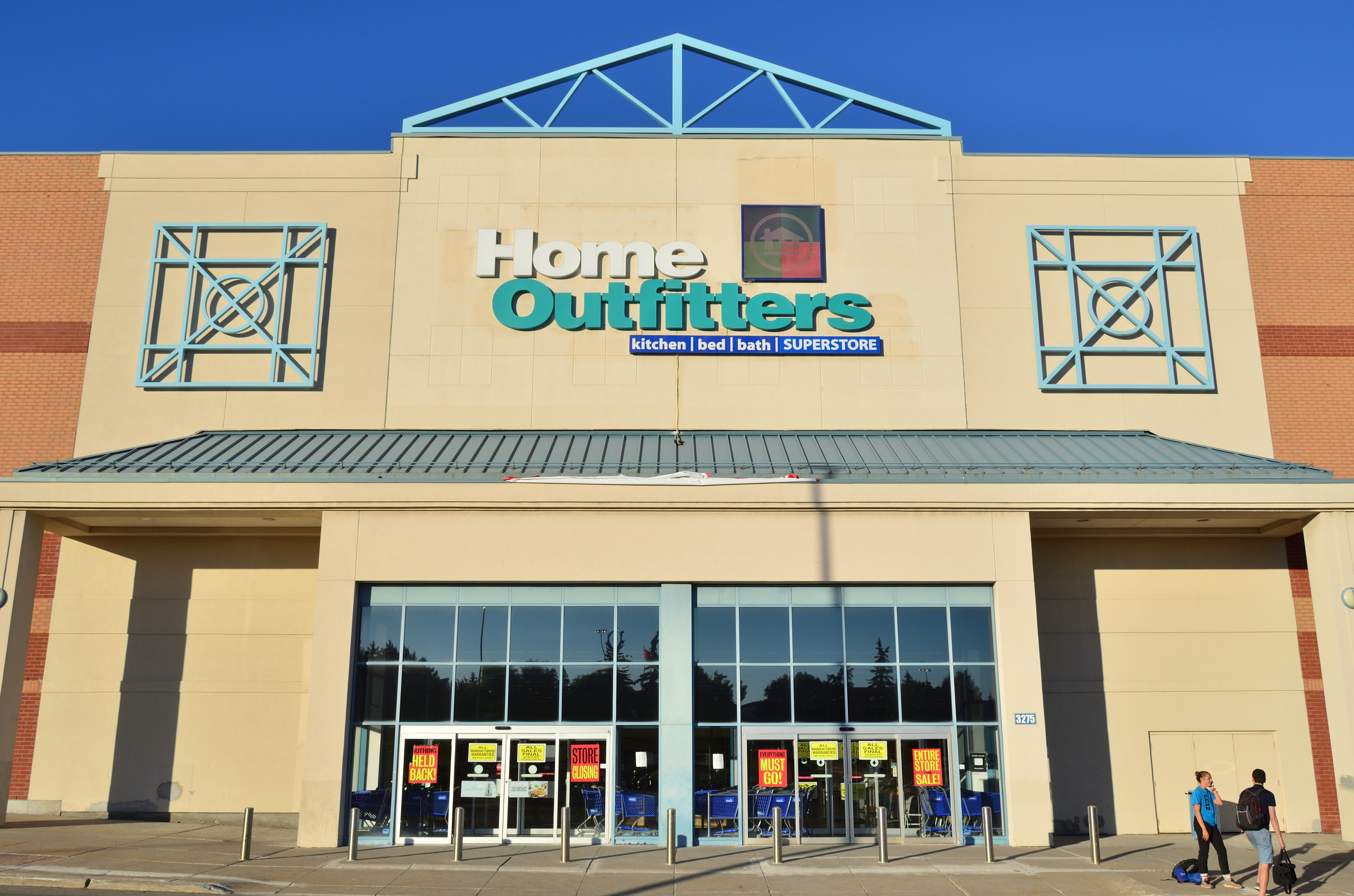 Home Outfitters at First Markham Place - Address: 3275 Highway 7, Markham, ON L3R 3P9